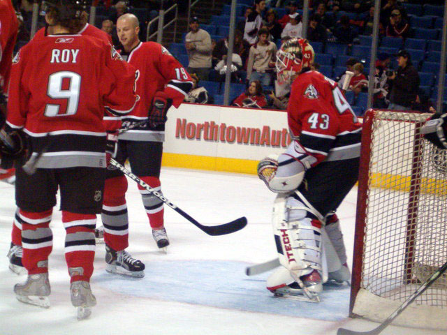 Tim Connoly(19), Derek Roy(9) and Martin Biron(43) of the Buffalo Sabres